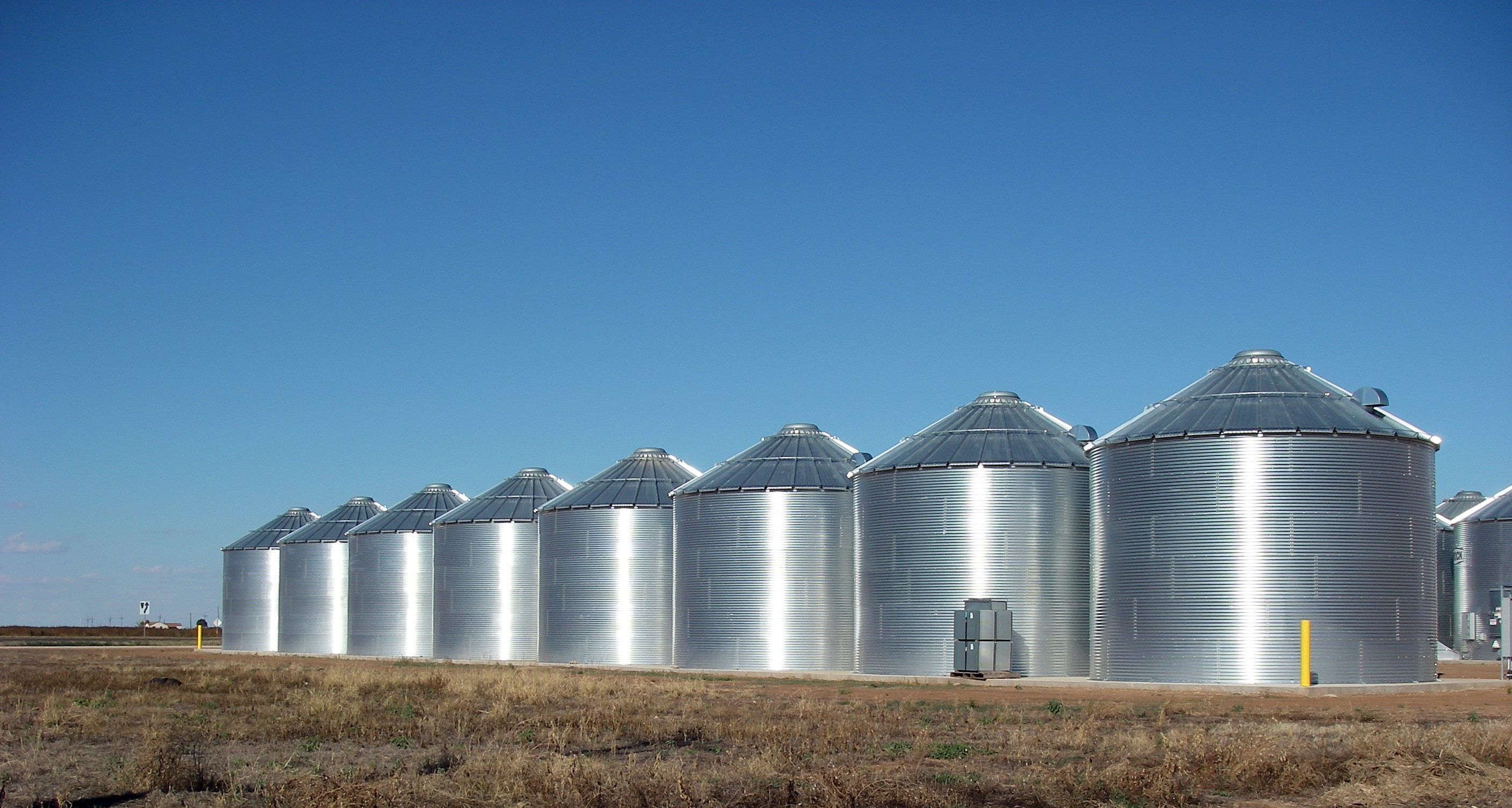 Steel silos storing sunflower seed along the west side of the small West Texas town of Ralls, Texas.